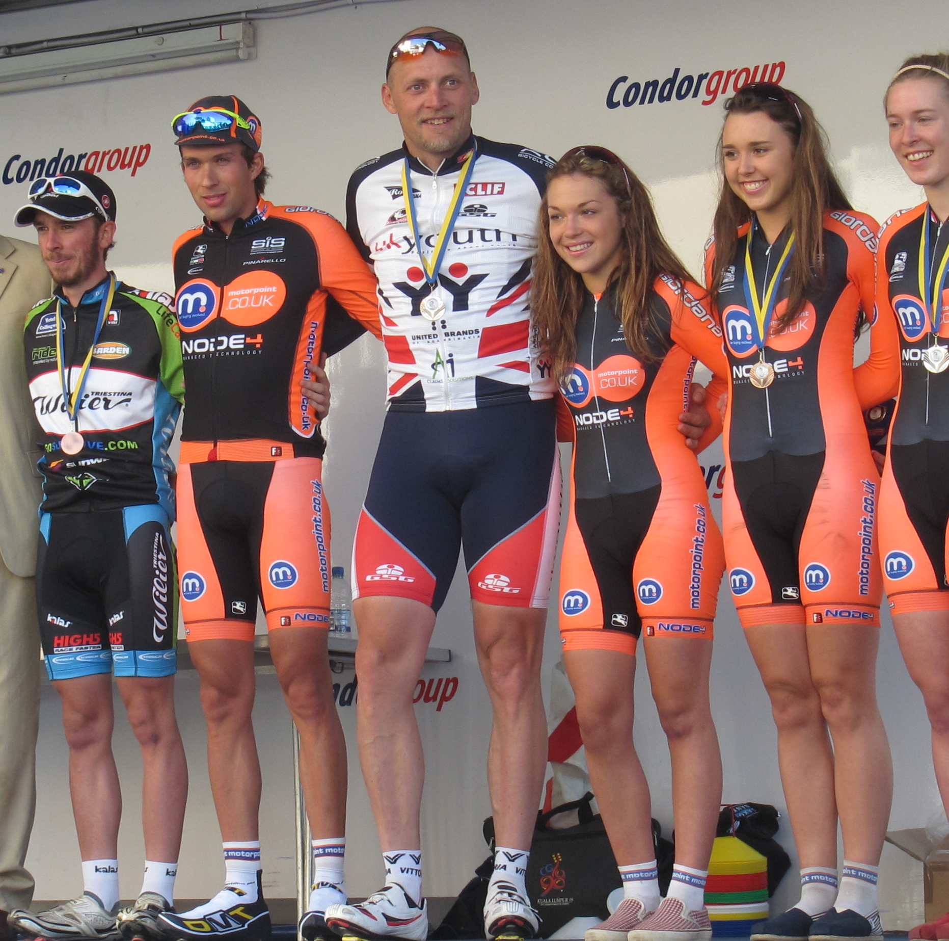 Jersey Town Criterium bicycle races, Saint Helier, Jersey